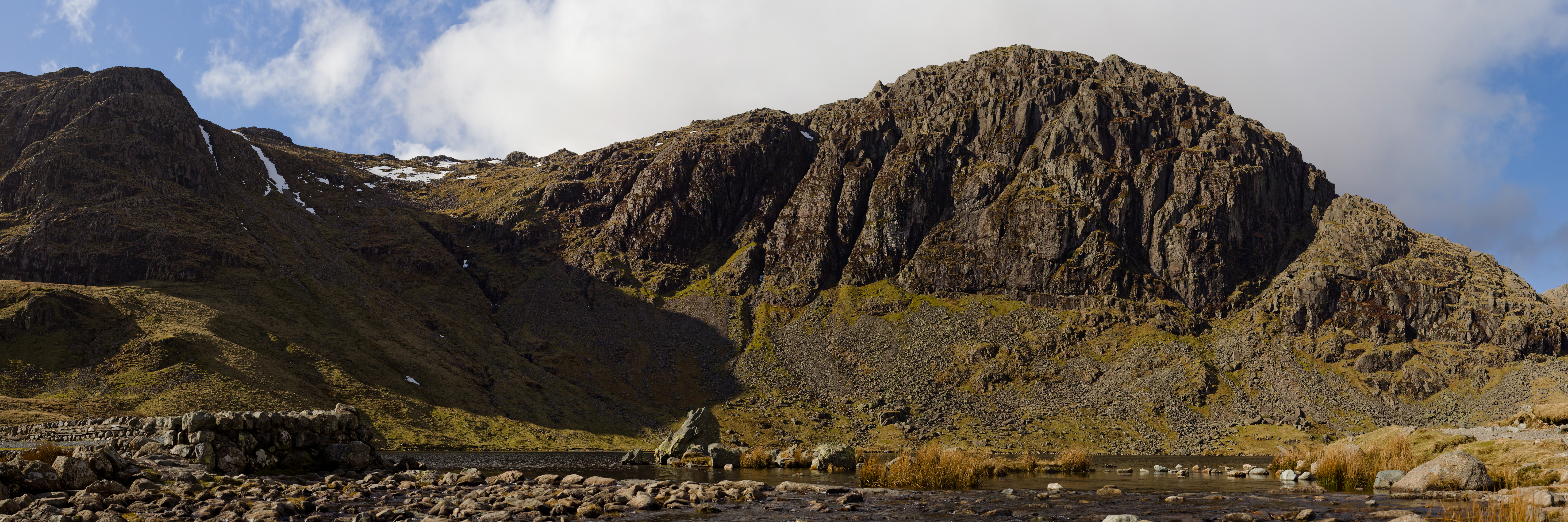 Pavey Ark, the largest cliff in the Langdales, facing east over Stickle Tarn. The main face is a little over a quarter of a mile across and drops about 400 ft. To the south west it merges into the crags of Harrison Stickle, while the northern end peters out into the valley of Bright Beck. Stickle Tarn is wholly within the territory of the Ark, a corrie tarn which has been dammed to create additional capacity. The stone faced barage shown to the left is low enough not to spoil the character of the pool, and the water is used for public consumption in the hotels and homes below. The tarn has a depth of around 50 ft. Jack's Rake, a Grade 1 scramble up the cliff face, can be traced from lower right to upper left. Two pairs of rock climbers can seen ascending a more challenging route, and a pair of walkers stand at the summit.